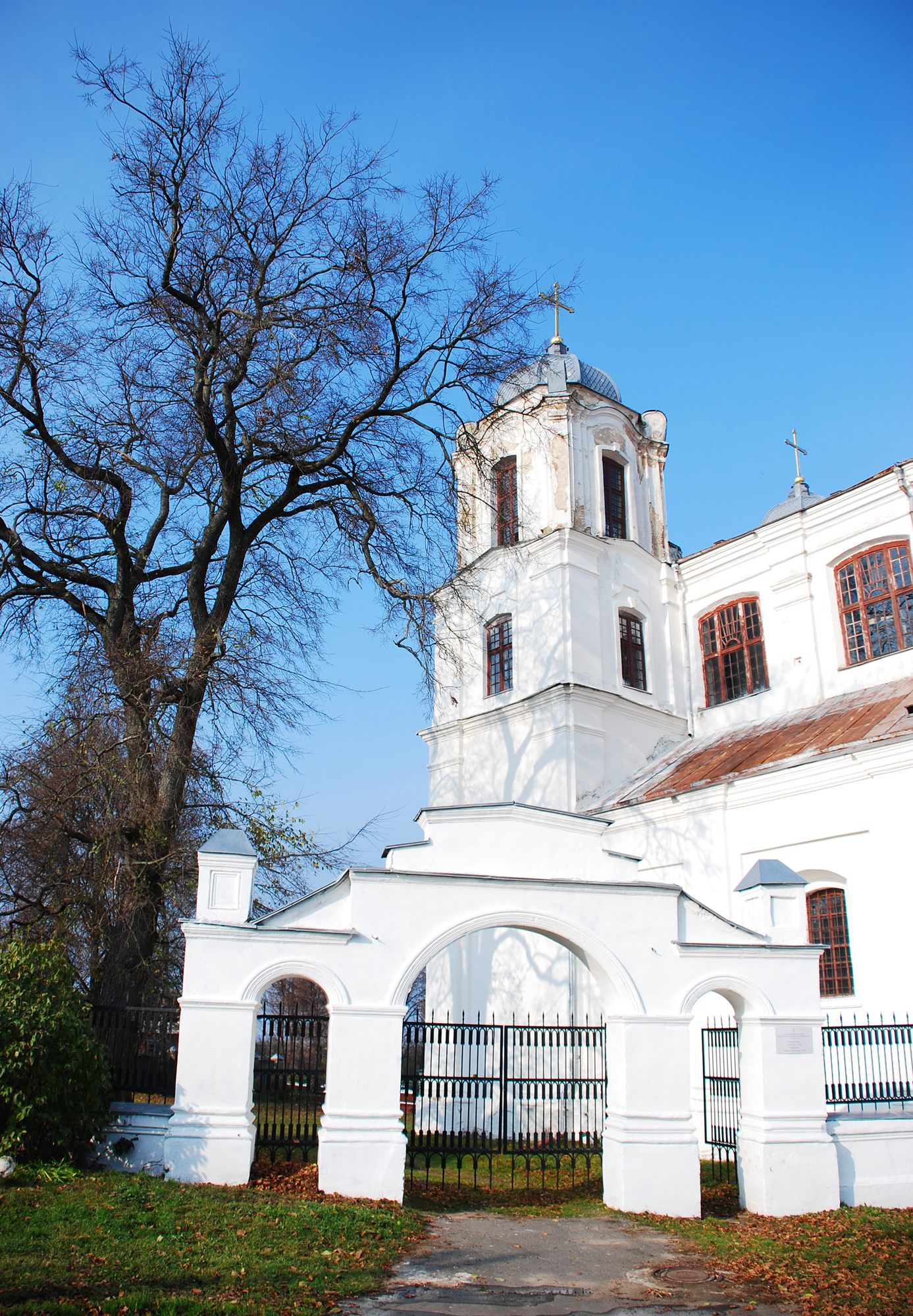 Church of the Assumption of the Blessed Virgin Mary in Mscislaŭ, Belarus This is a photo of Belarusian heritage monument. Reference number: 511Г000504 ( WLM)